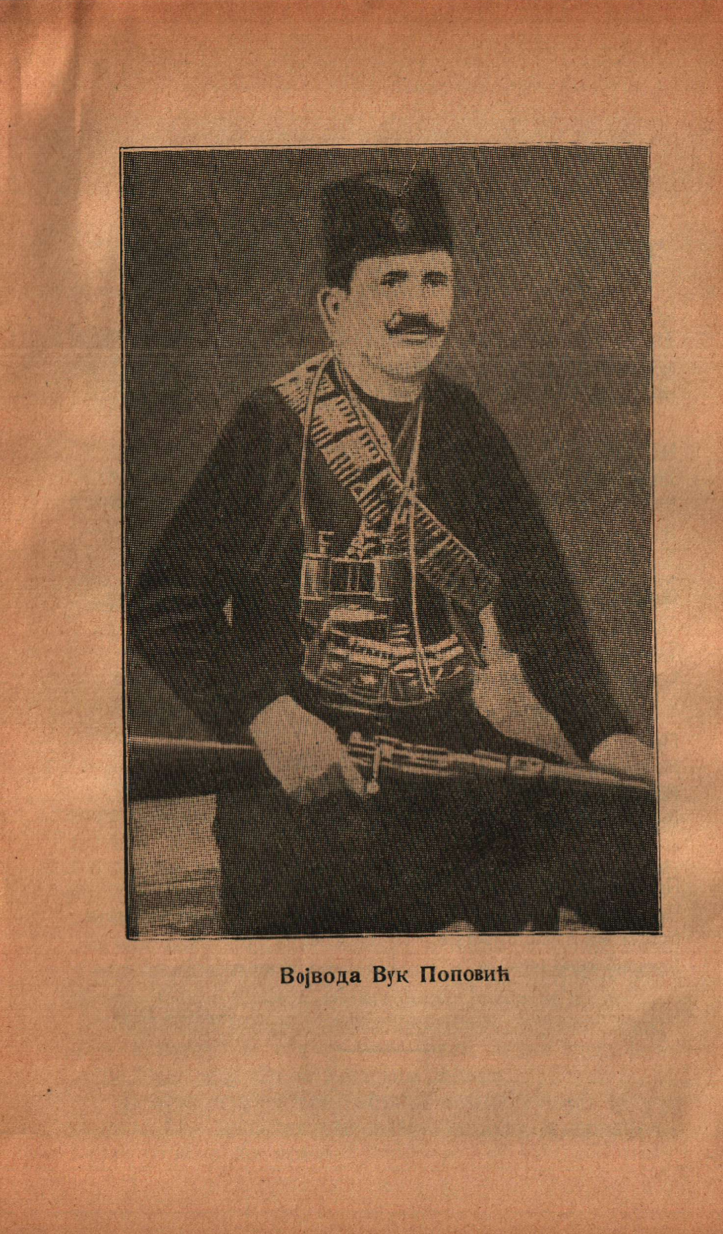 Voyvoda Vuk Popovich. 1927 calendar.